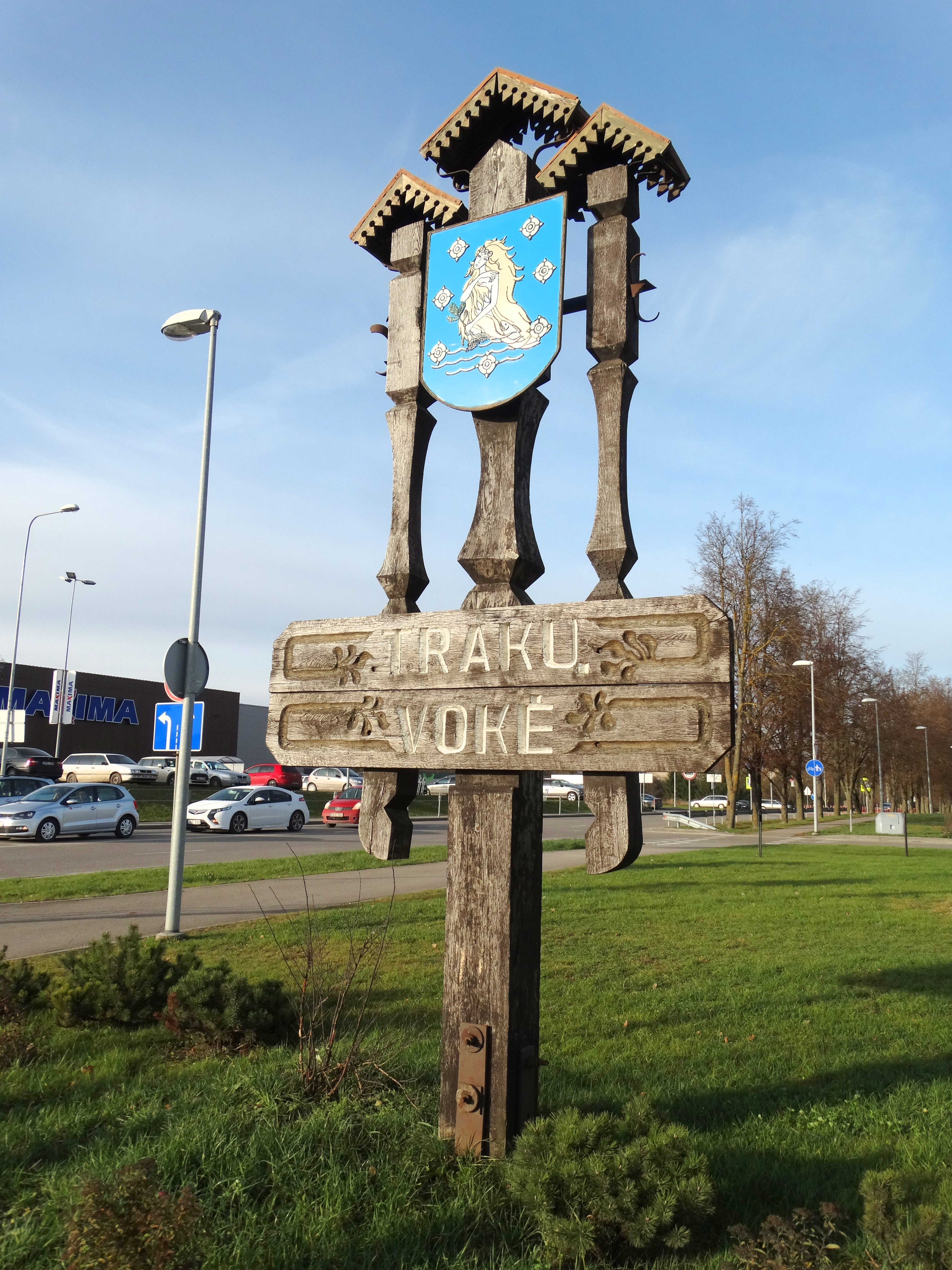 Trakų Vokė, Vilnius, Lithuania